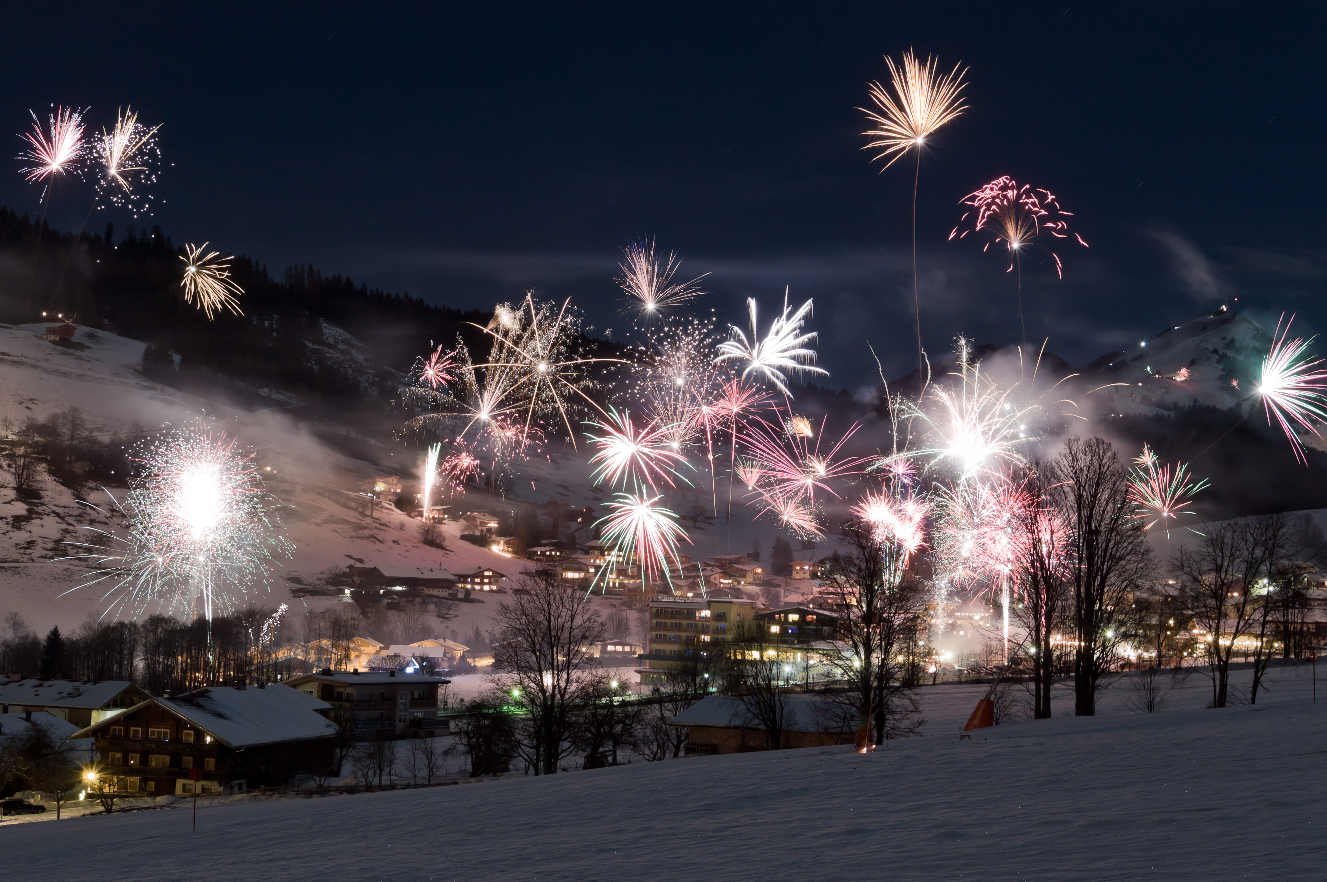 Firework at the New Year's Eve in Niederau, Tyrol, Austria.